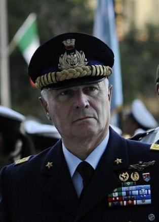 The Chief of Defense Staff of Italy, General Vincenzo Camporini, at the Rabin Military Base, during his visit in Israel {December 27, 2010). For further details, check out the IDF blog.